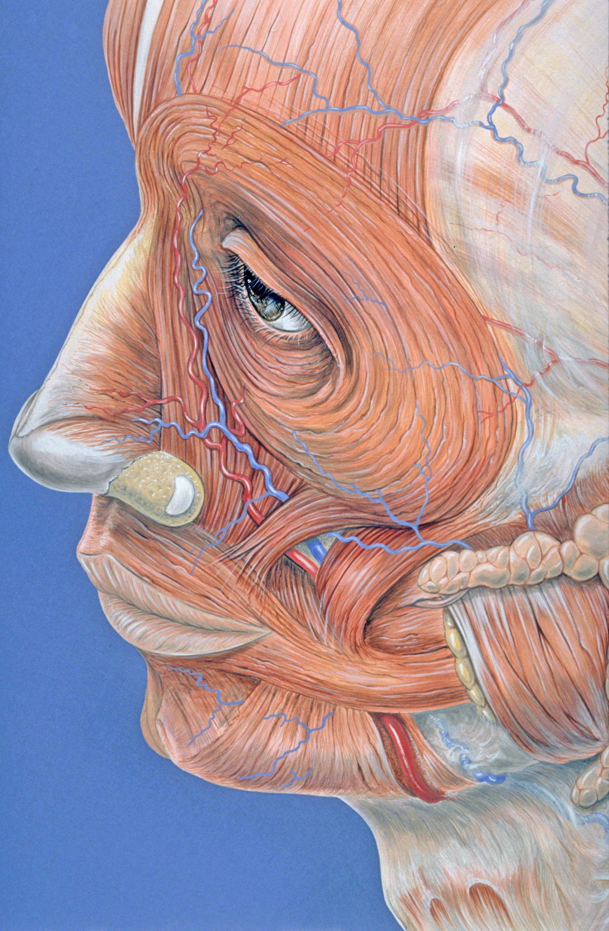 Superficial muscles and structures of the human face